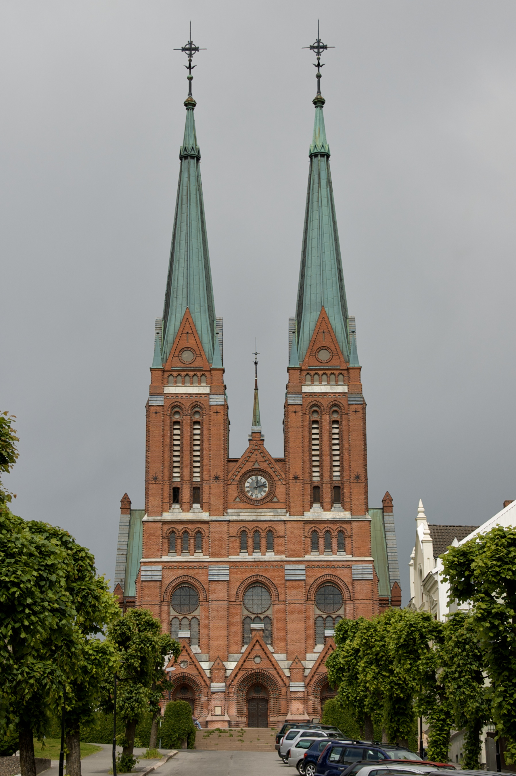 Skien kirke, main entrance